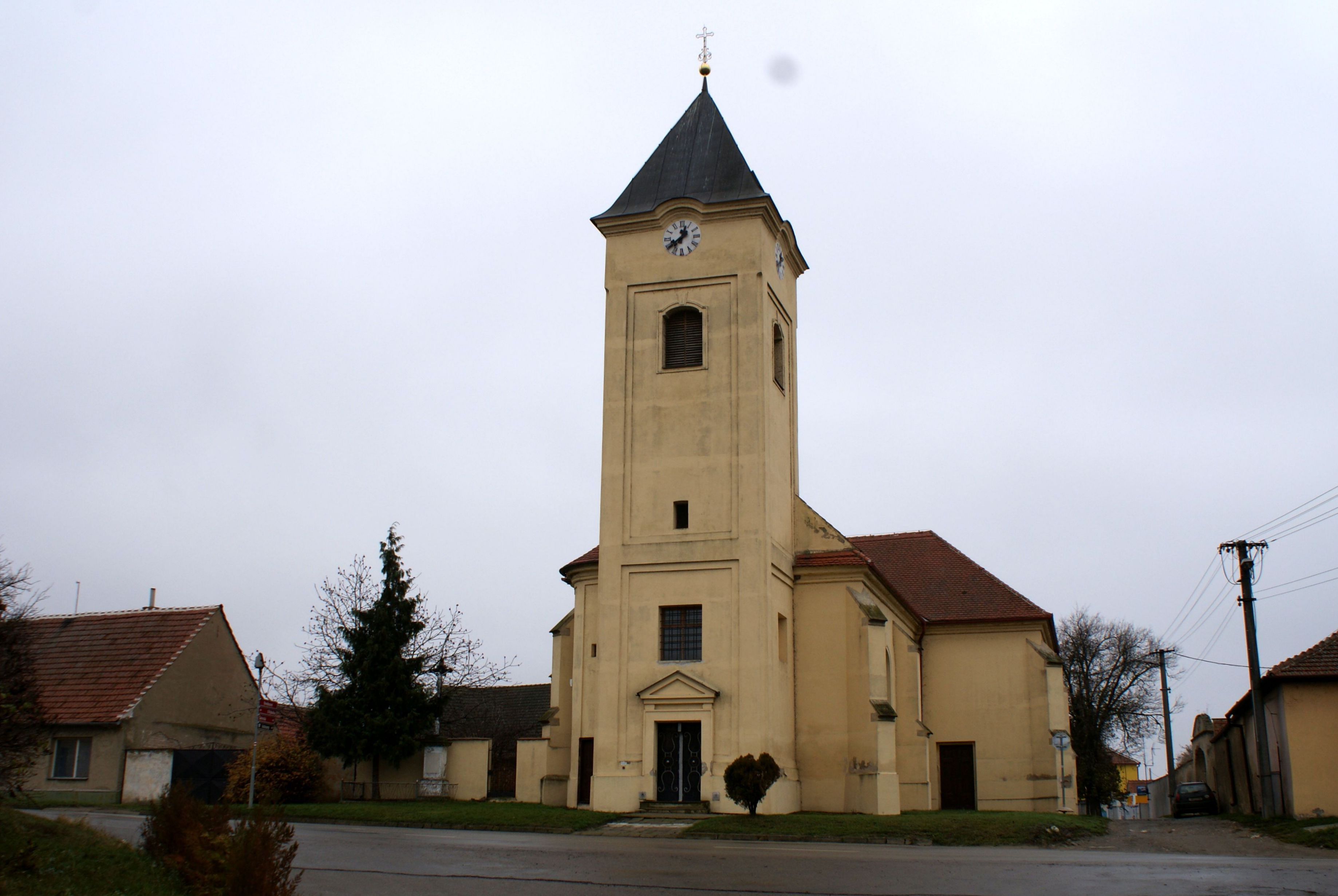 Church in Strachotín